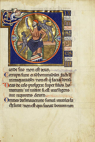 Page from a French Psalter, John Paul Getty Museum, Los Angeles, Ms 66